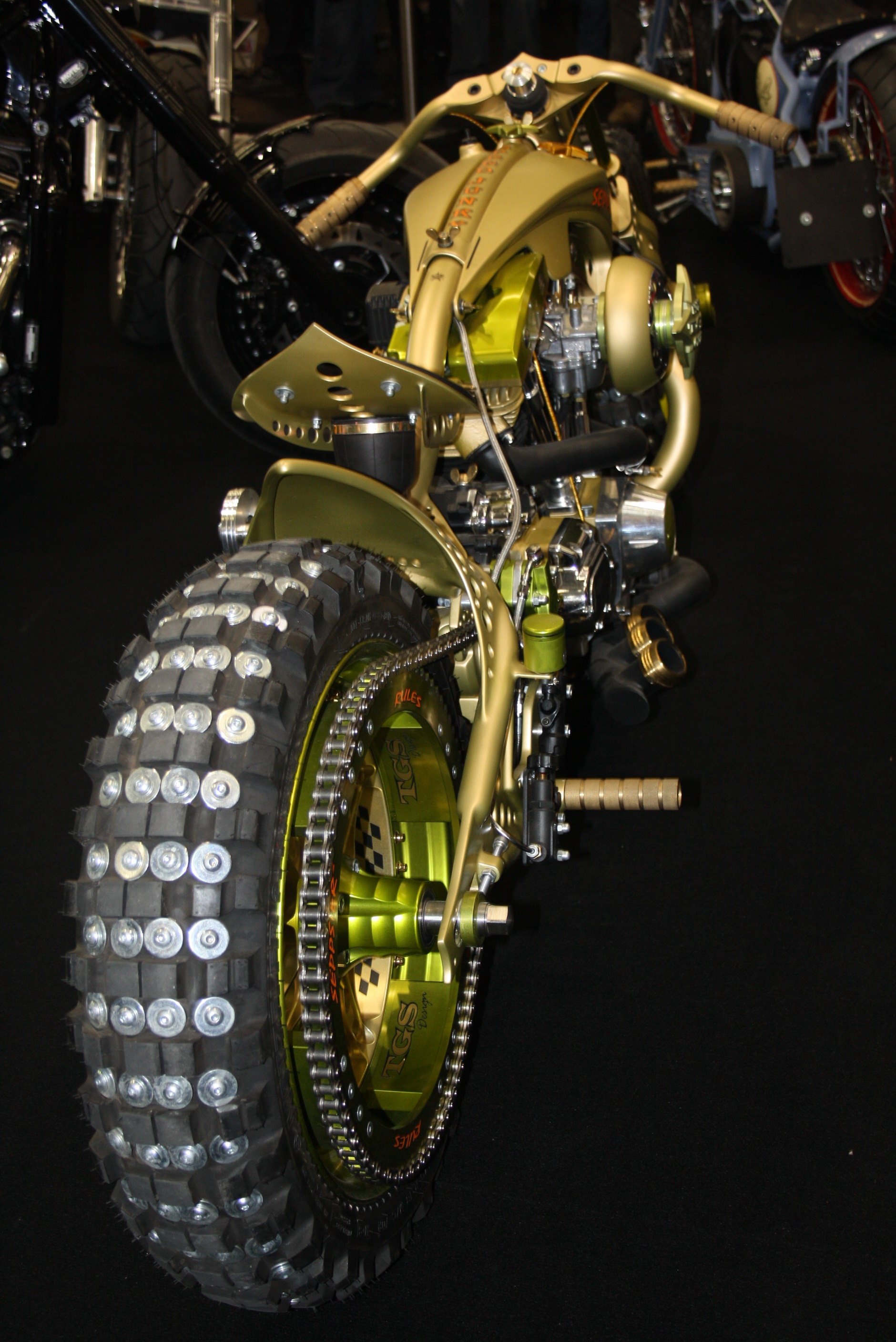 Custombike IMOT Munich